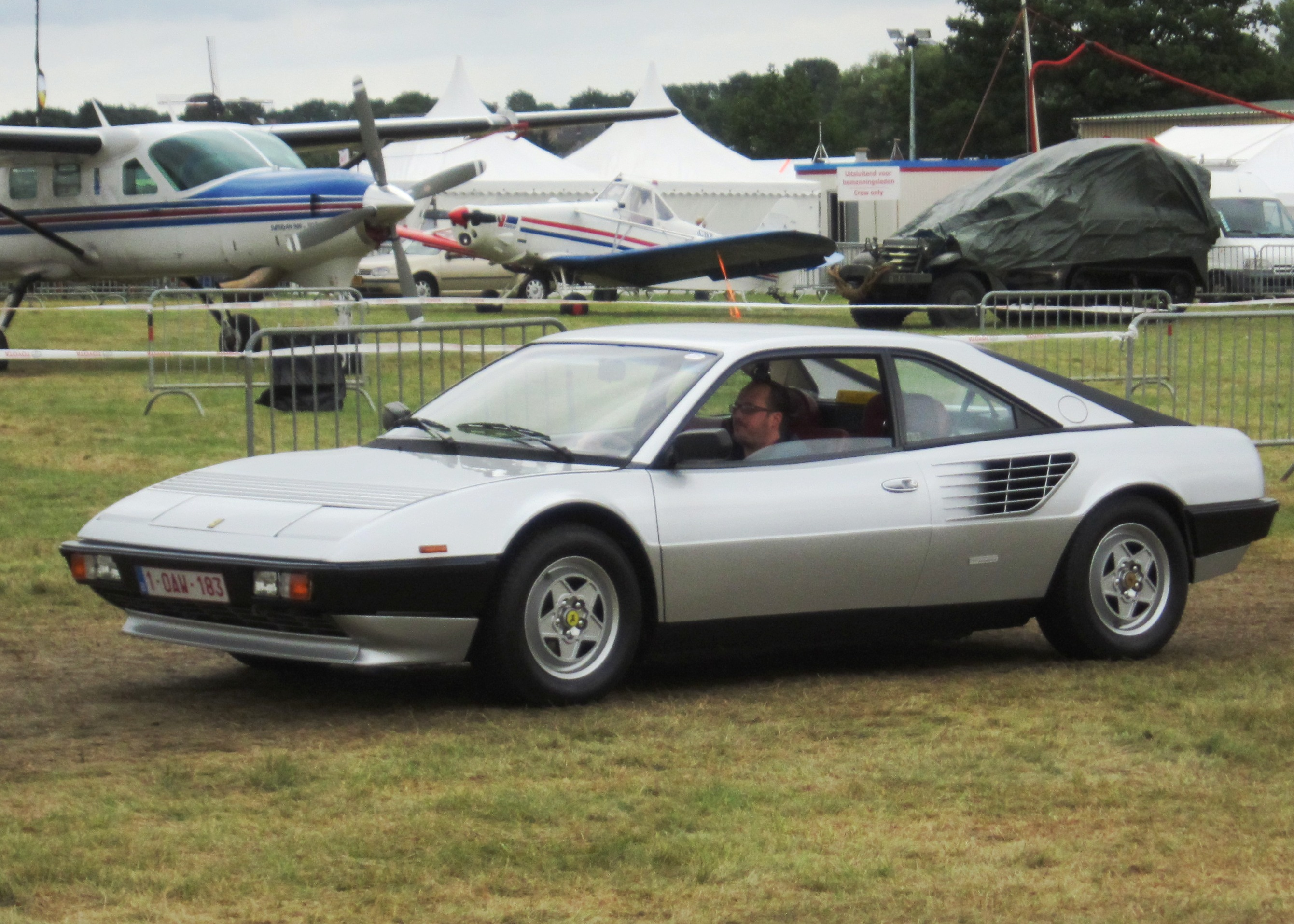 Ferrari Mondial 8 at Schaffen-Diest in 2014